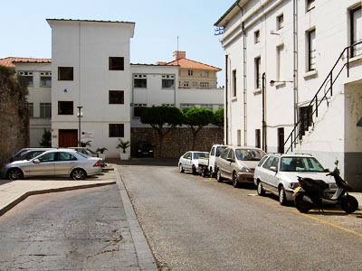 The suspected location of the IRA bomb in Gibraltar